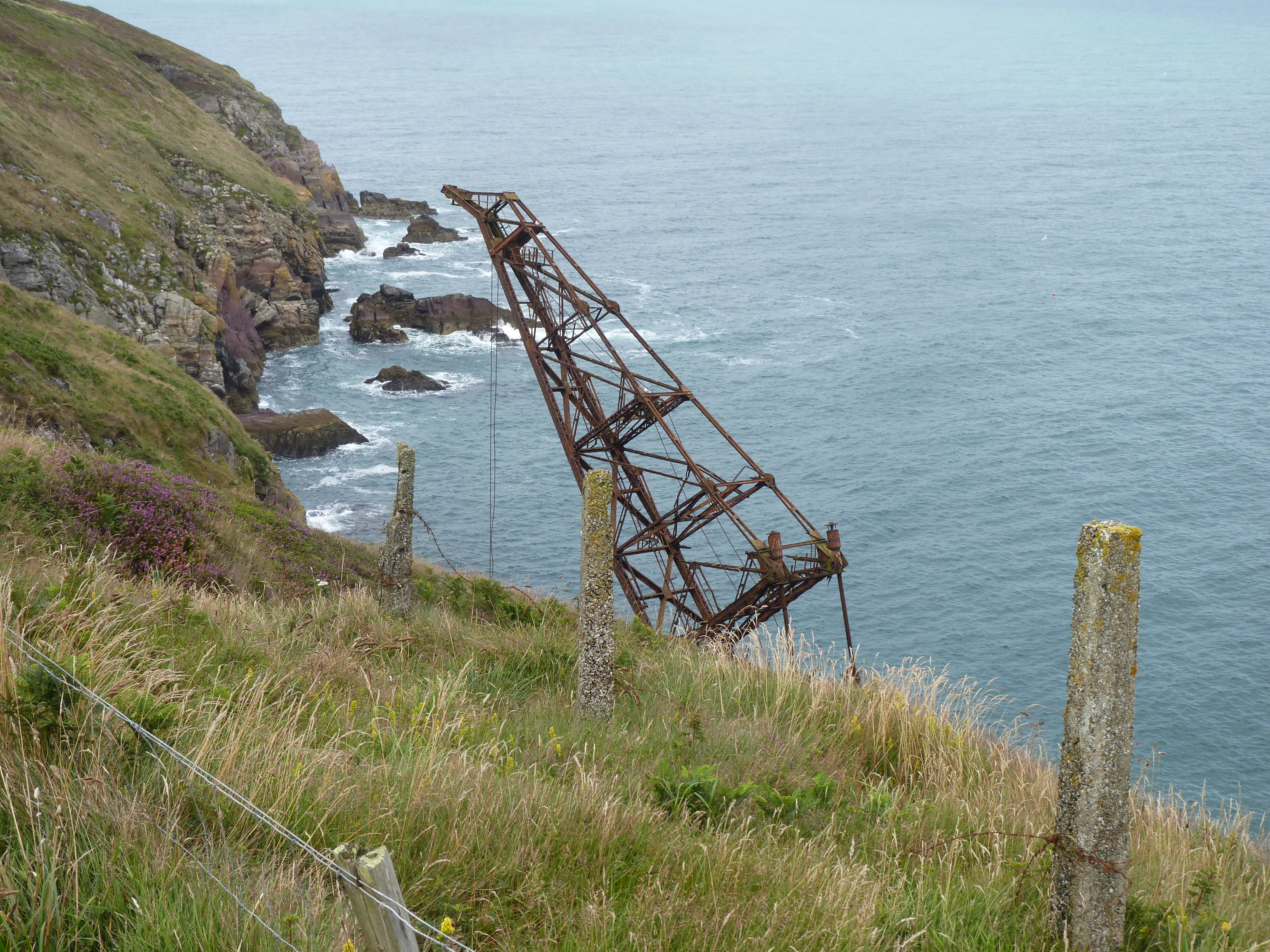 samsung crane ship ardmore